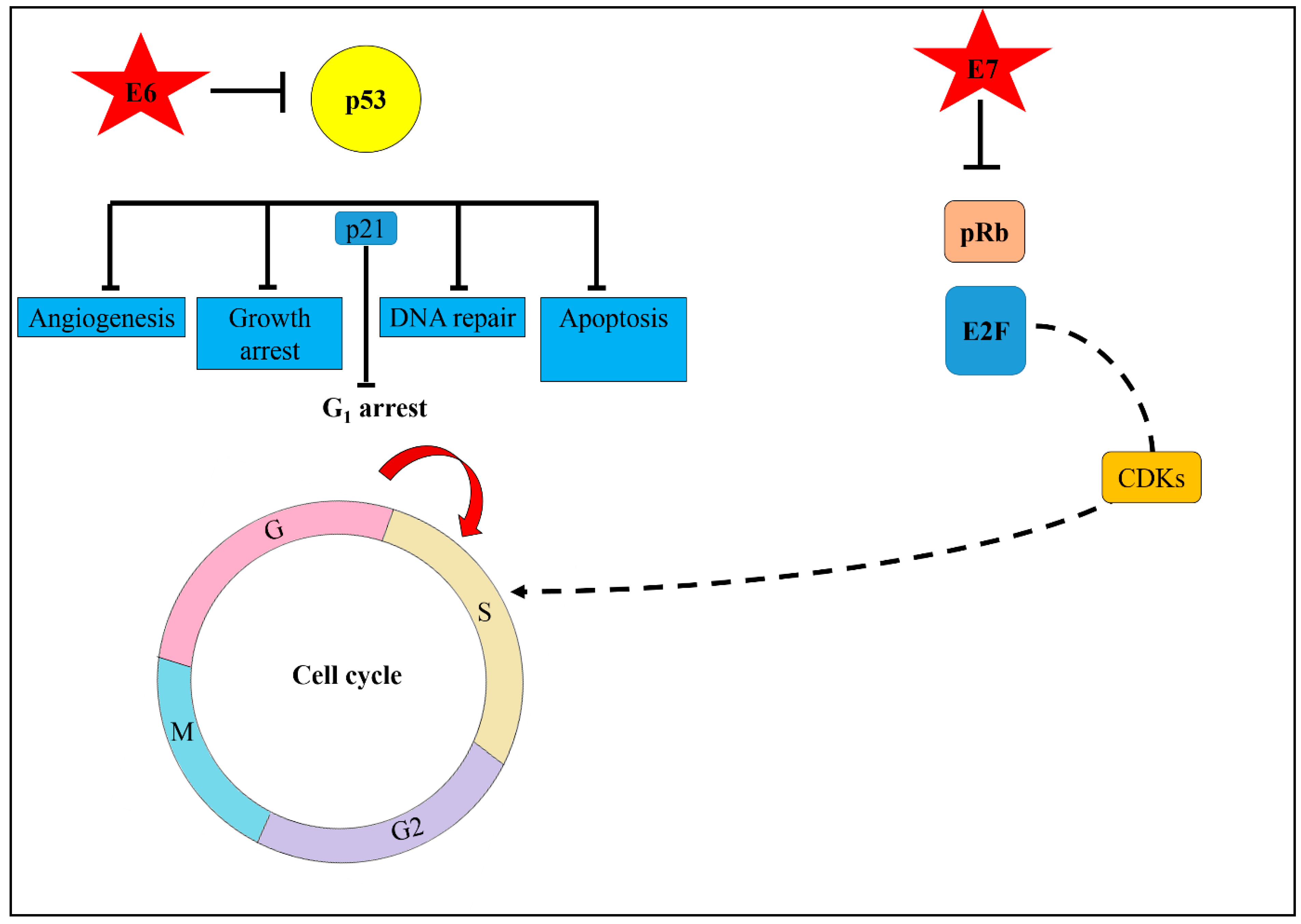 Schematic diagram illustrating the role of HPV oncoproteins in cervical carcinogenesis